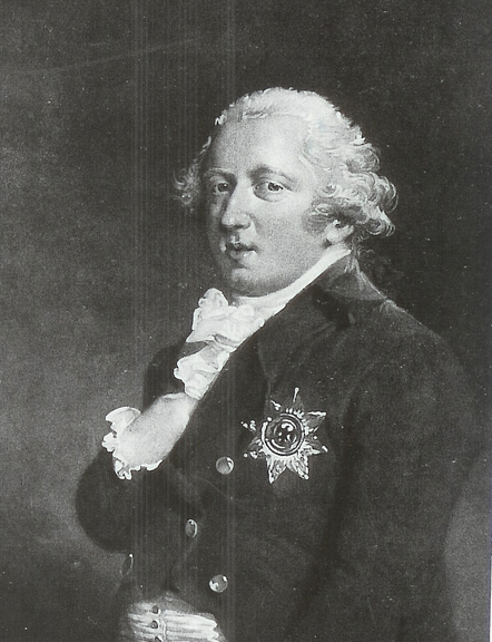 Charles William Ferdinand, Duke of Brunswick-Lüneburg.